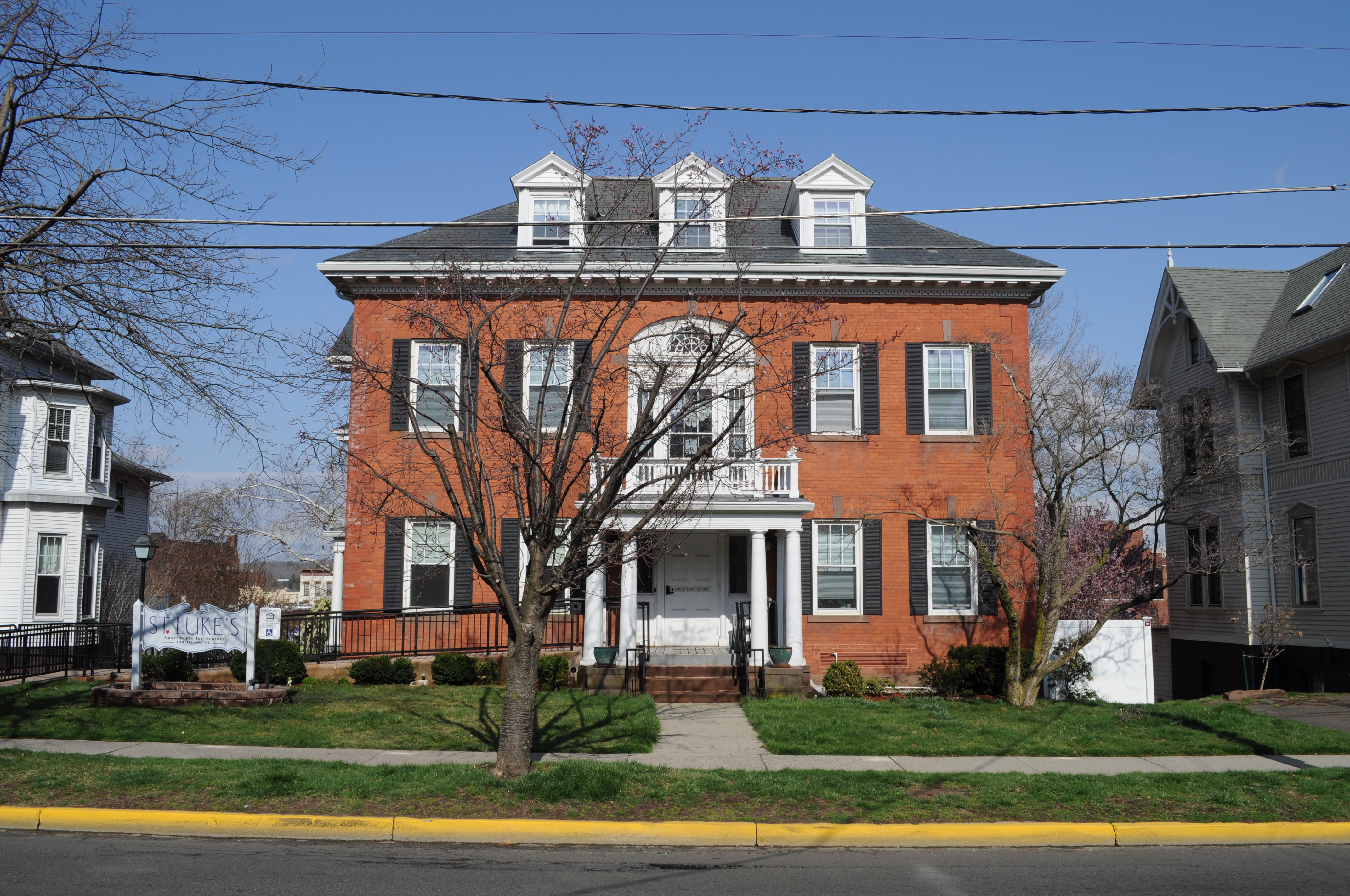 144 Broad Street, Middletown, Connecticut. Historic rectory of the Church of the Holy Trinity (Episcopal), also known as the Bishop Acheson House, now elderly residential apartments run by St. Luke's. The building is a contributing property of the Broad Street Historic District, which is listed on the National Register of Historic Places (Reference # 88001319). The church and rectory are also listed on the NRHP in their own right (Reference # 79002615).